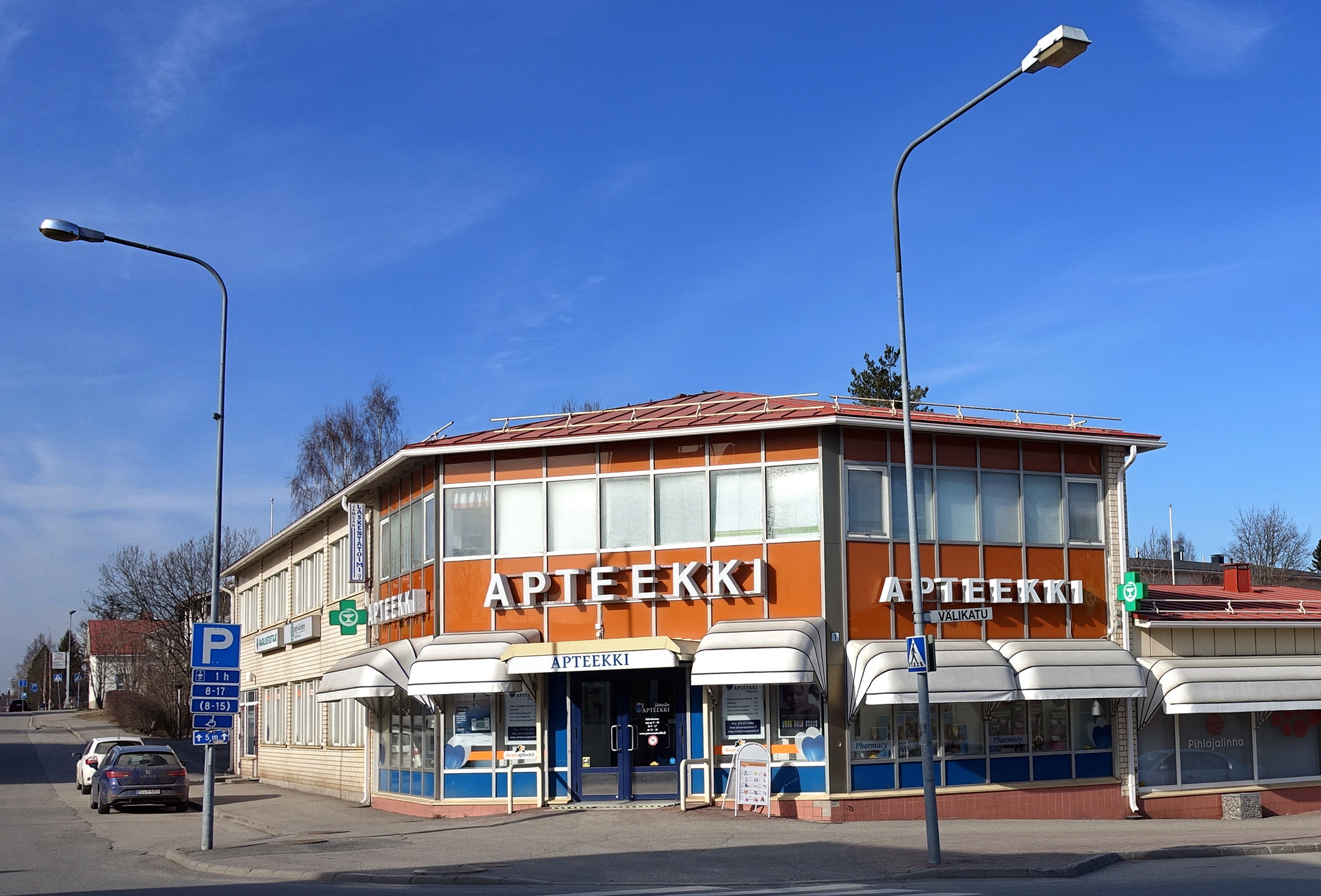 A pharmacie in Jämsä Finland.